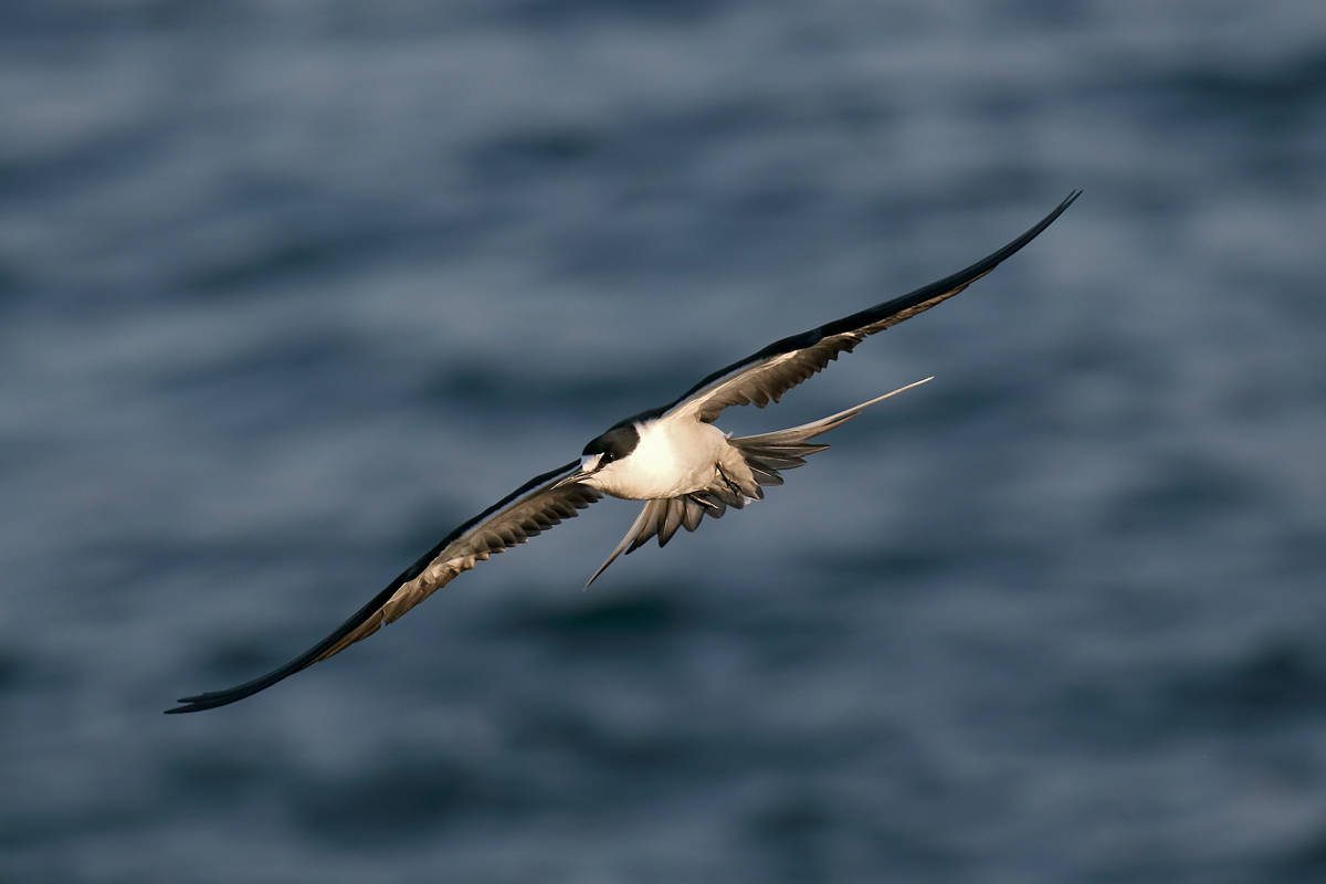 Middle Beach, Lord Howe Island